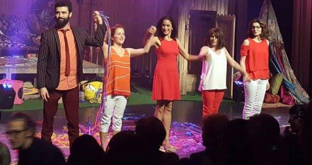 Marilyse Bourke, Brigitte Lafleur, Anne Casabonne, André Robitaille & Geneviève Rochette photographed in Longueuil, Quebec, Canada following a play La galère at the Théâtre De La Ville.